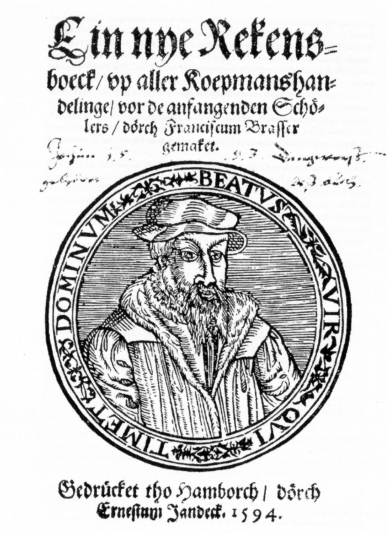 Franz Brasser (c. 1520-1594), German mathematician